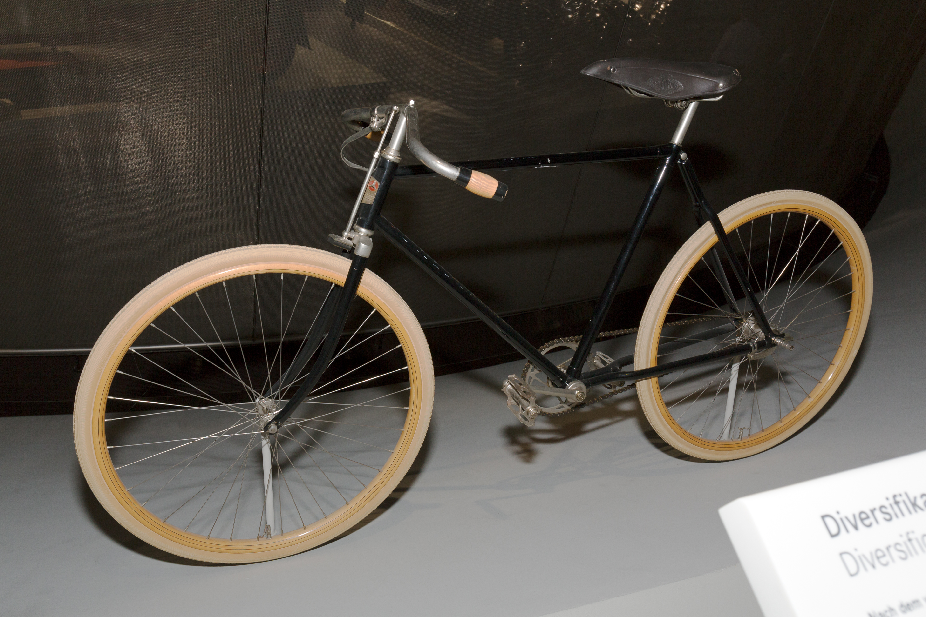 1924–1926 Mercedes Feiner Strassenhalbrenner (Refined Semi-roadracer)